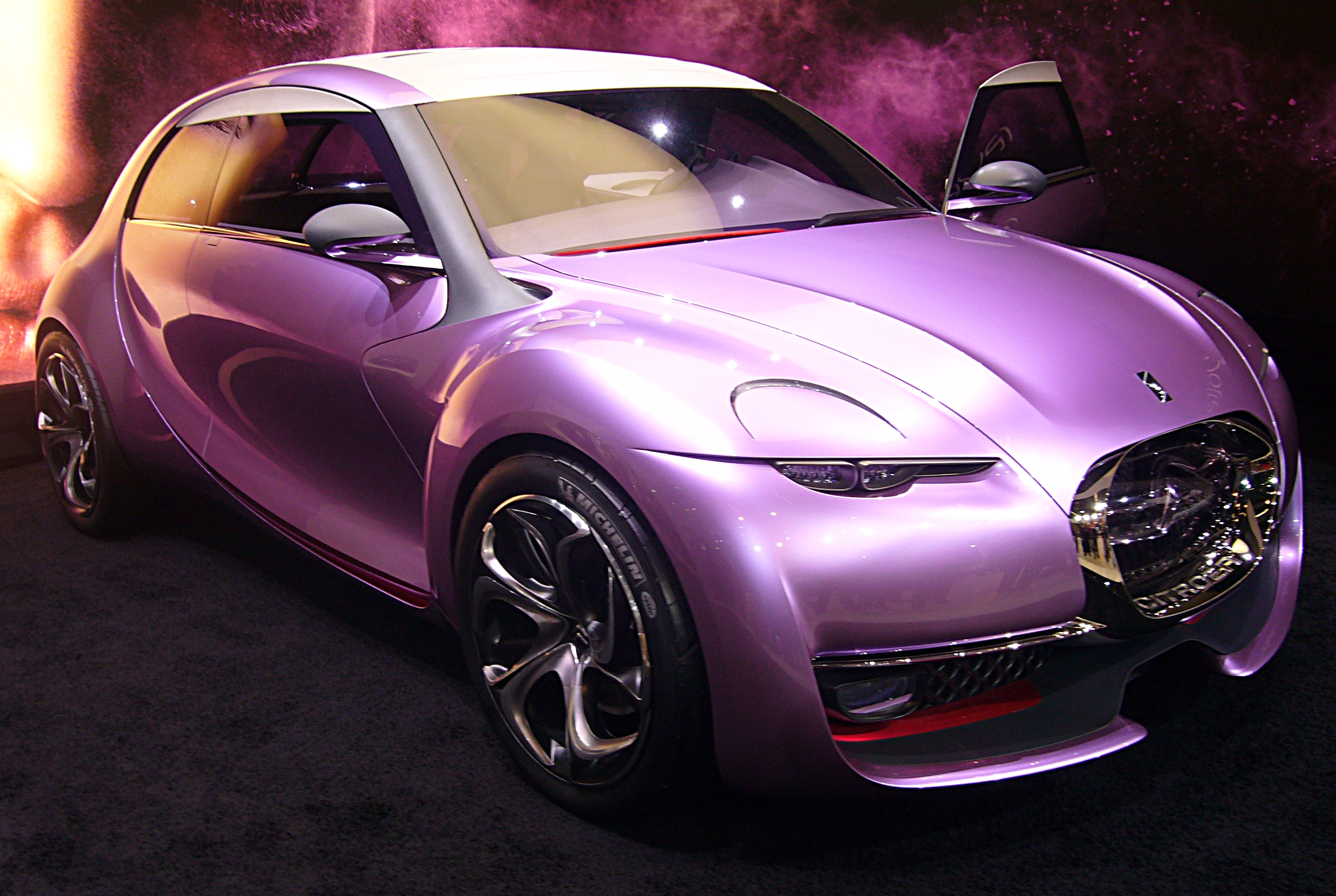 Citroën Revolte Concept at IAA Frankfurt 2009